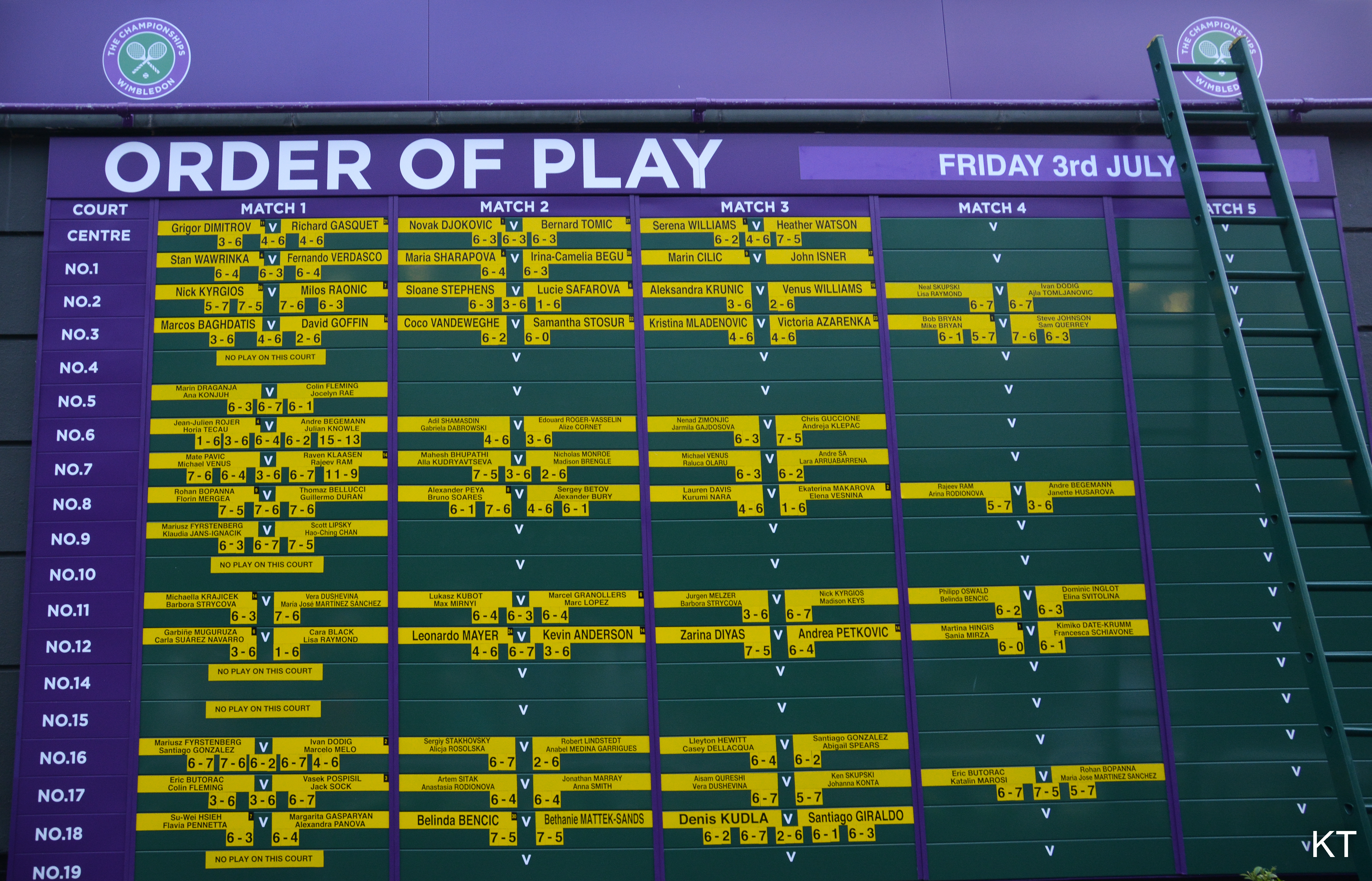 Day 5 of Wimbledon 2015.